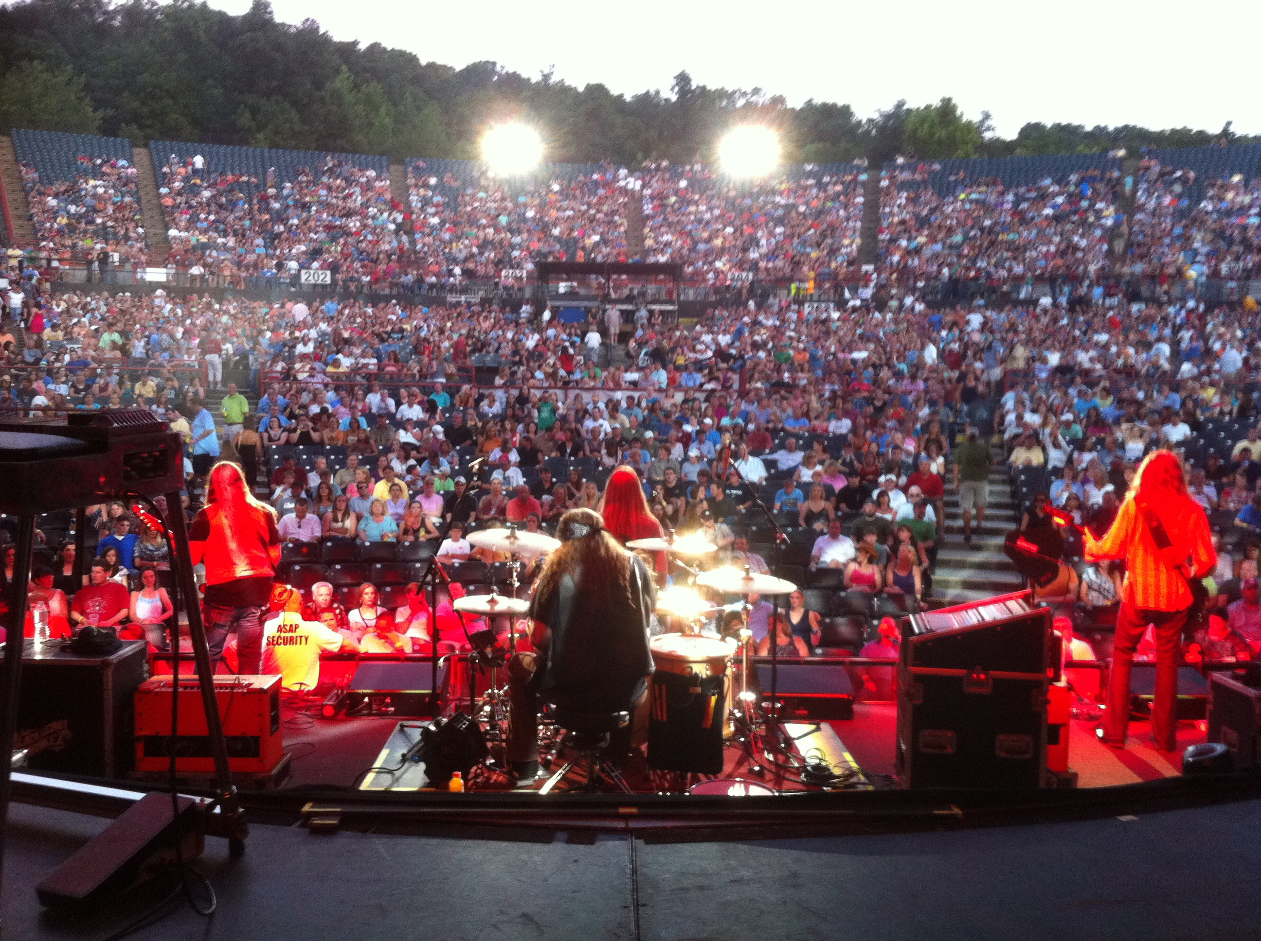 Blackberry Smoke Live in Birmingham, Alabama, 5/28/11.